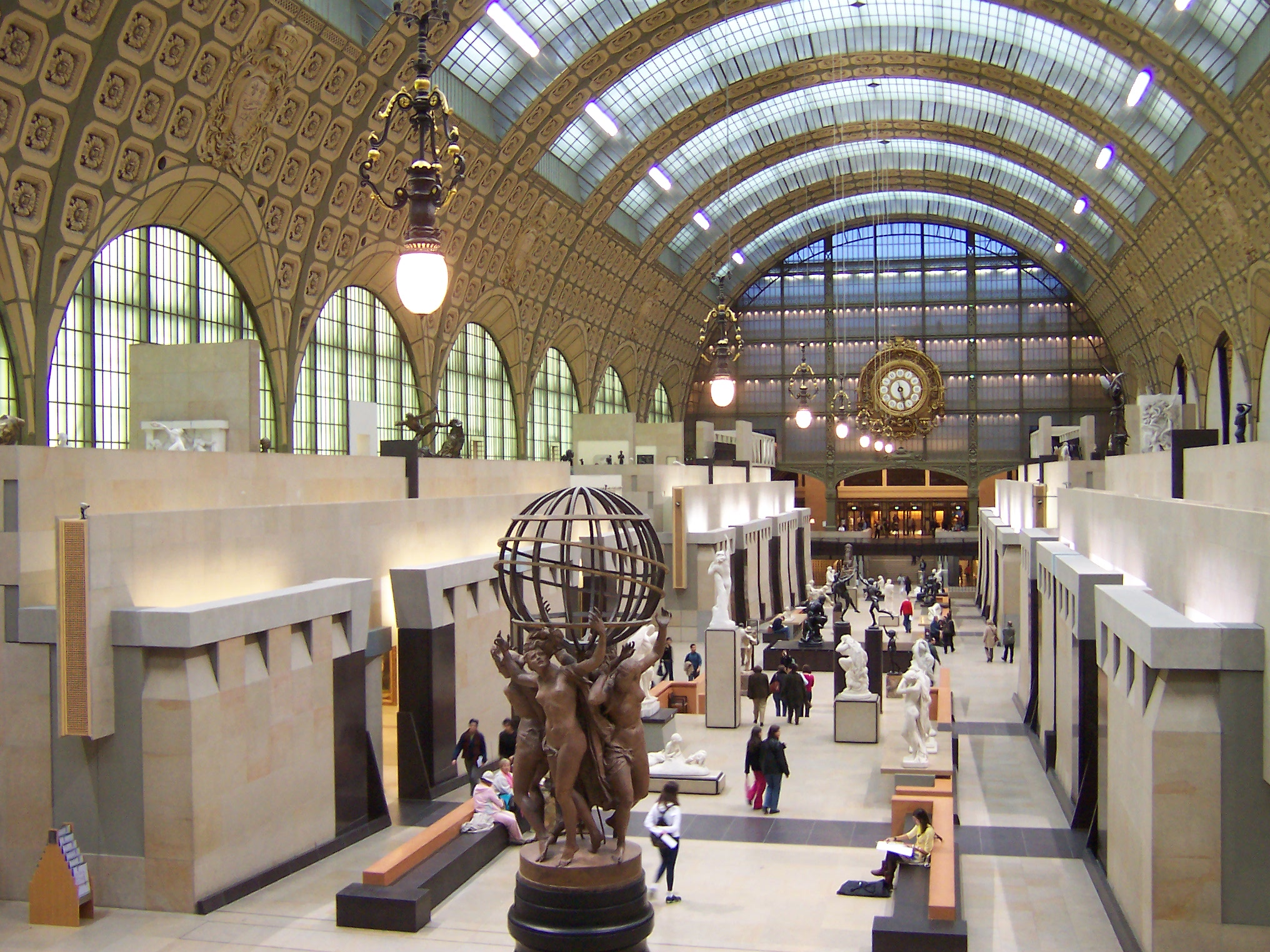 Musée_d'Orsay – 2004-11-03 Inside of Musée d'Orsay in Paris, taken by myself Photographer Alexander Franke Rights and restrictions for works released per the GNU Free Documentation License